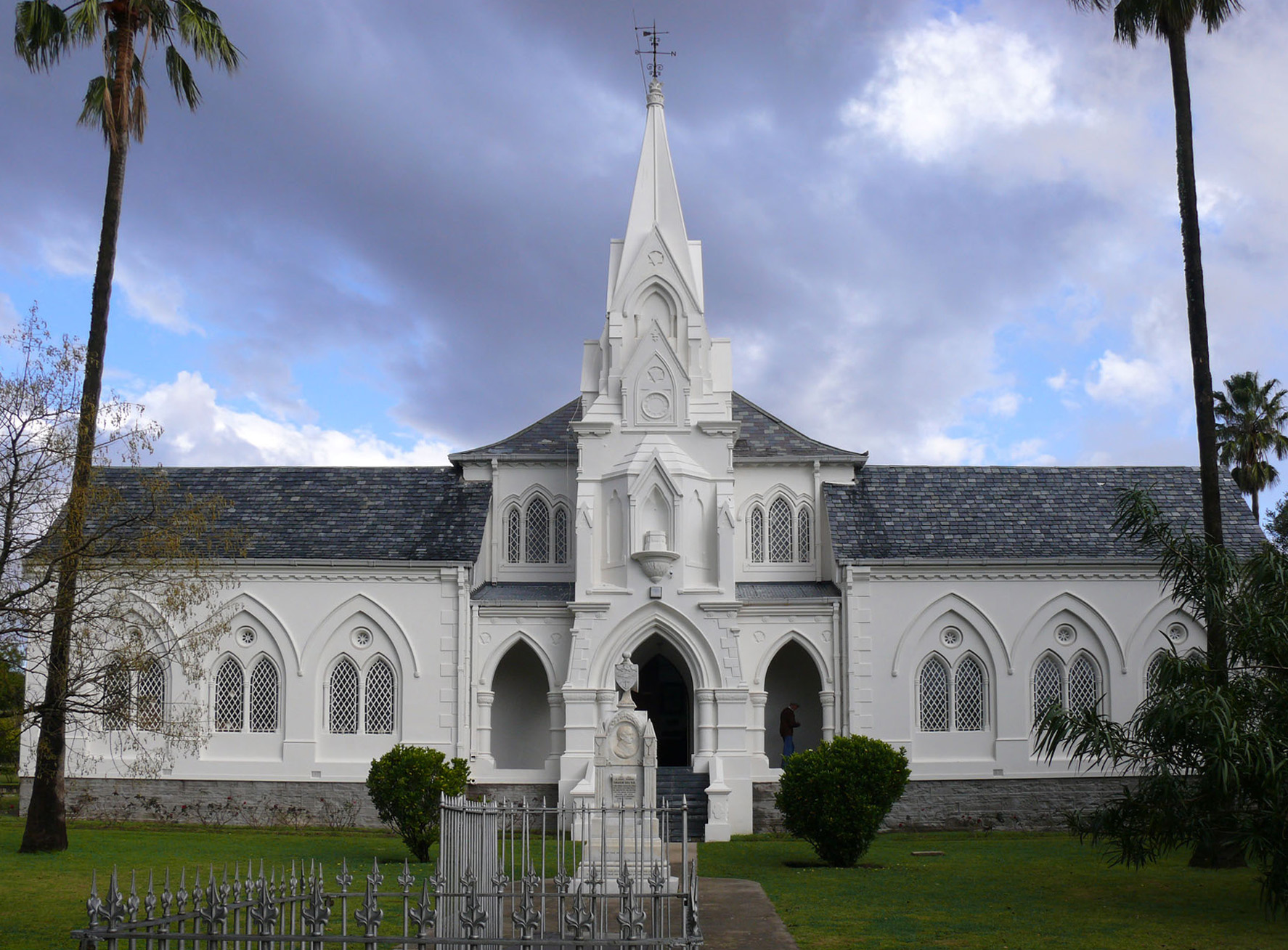 Old College Building, New Street, Somerset East This media shows a South African Protected Site with SAHRA file reference 9/2/082/0013-001.